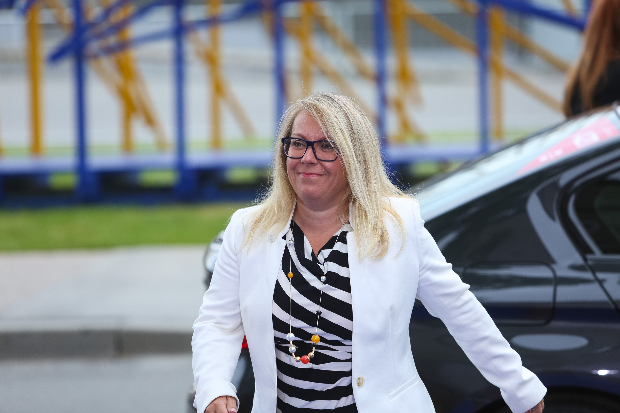 Sigríður Á. Andersen, Minster, Ministry of Justice, Iceland